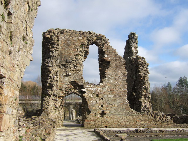 Haverfordwest priory ruins. The priory was built by the Augustinian monastic order on the bank of the Cleddau just outside the town wall in the early C13. It consisted of a cruciform church, cloister, garden and ancillary structures. The monks would have made a living from rents and spiritual duties, while providing work for the local people who serviced the priory.